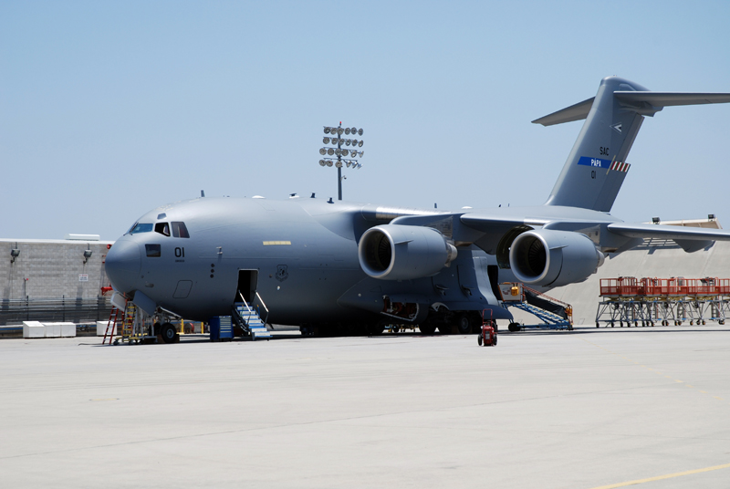 The first C-17 of Heavy Airlift Wing.